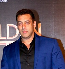 Salman at Colors Golden Petal Awards 2016